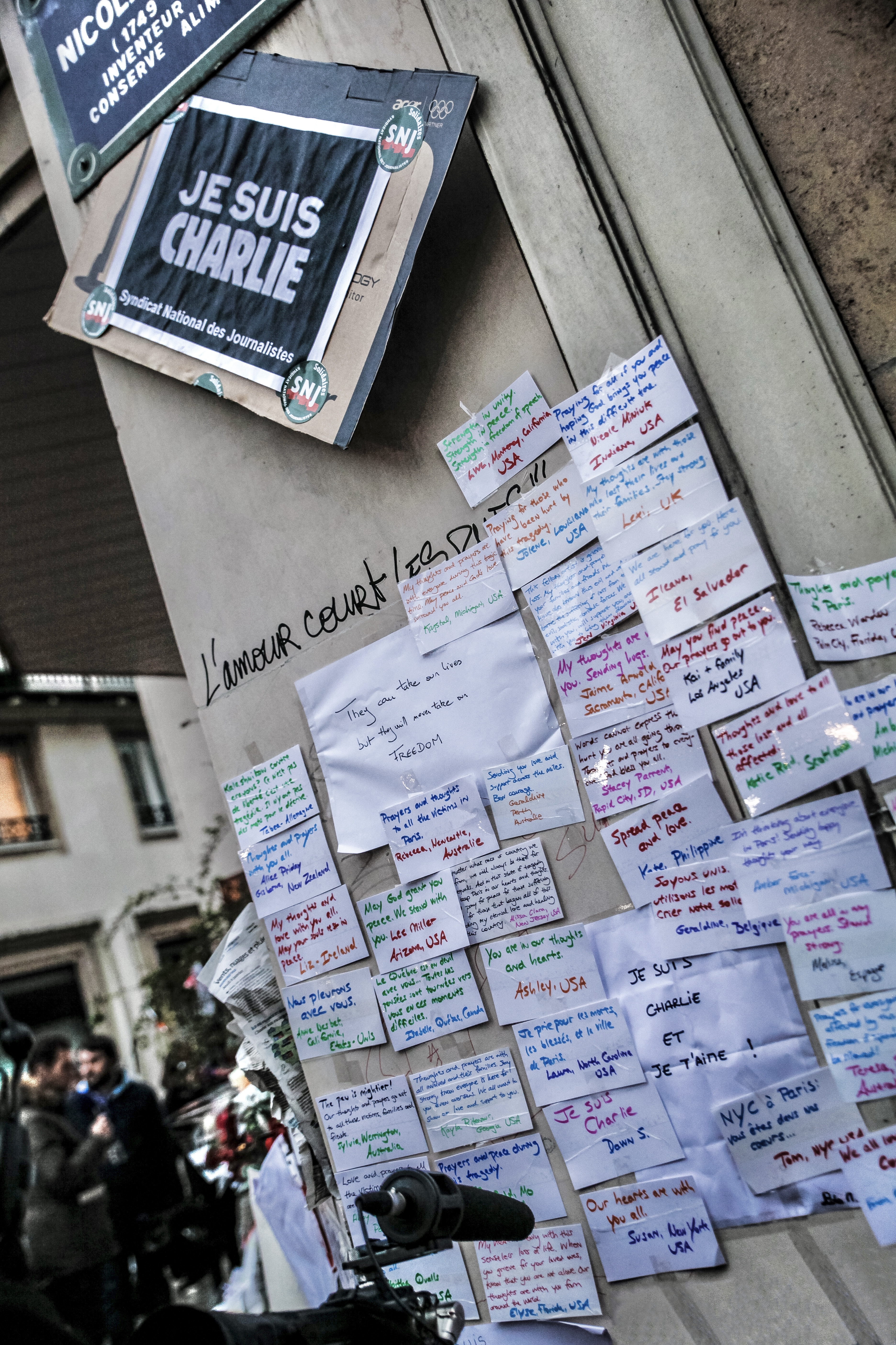 Rue Nicolas-Appert, Paris, one day after the Charlie Hebdo shooting.